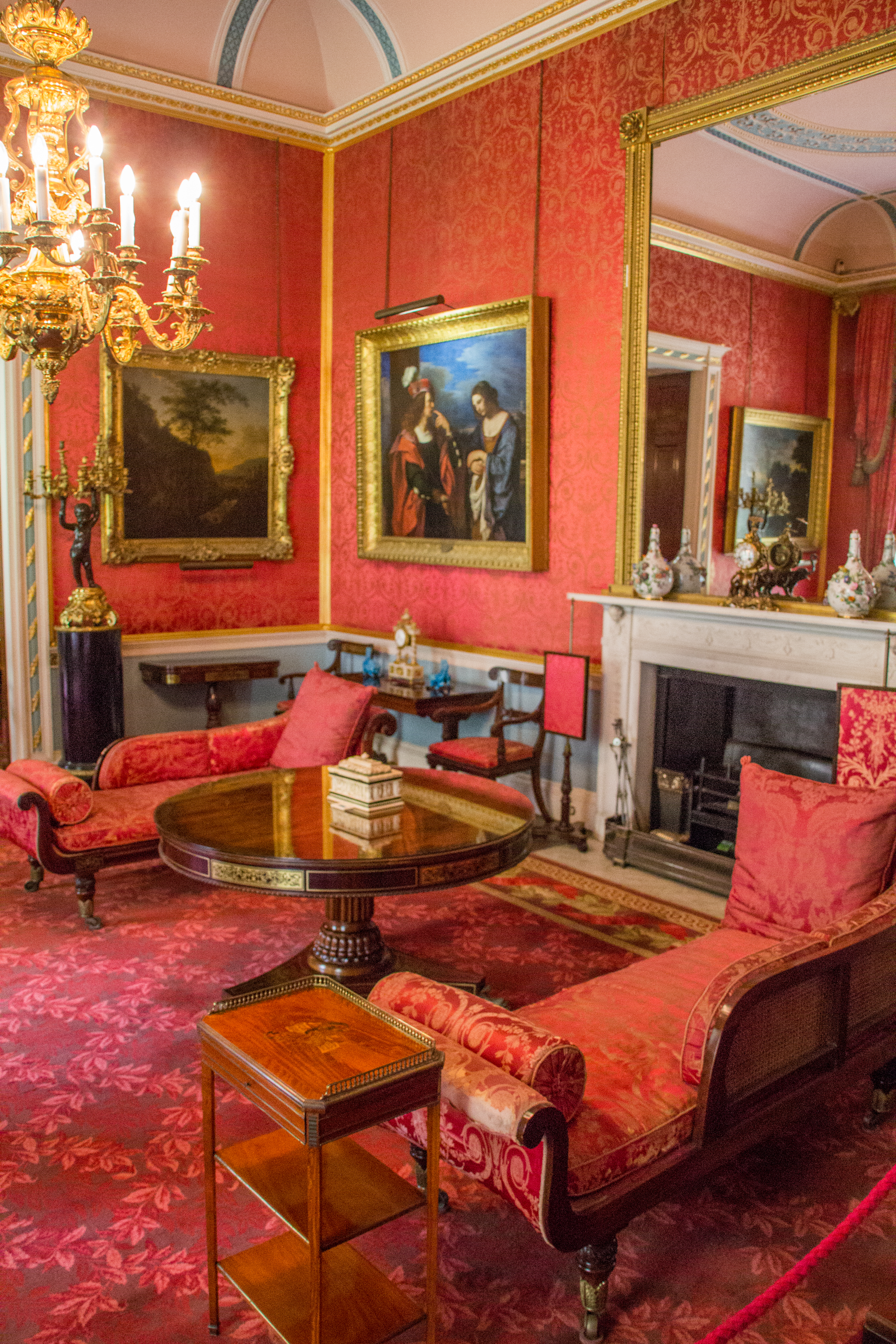 Tatton Hall, Tatton Park, United Kingdom